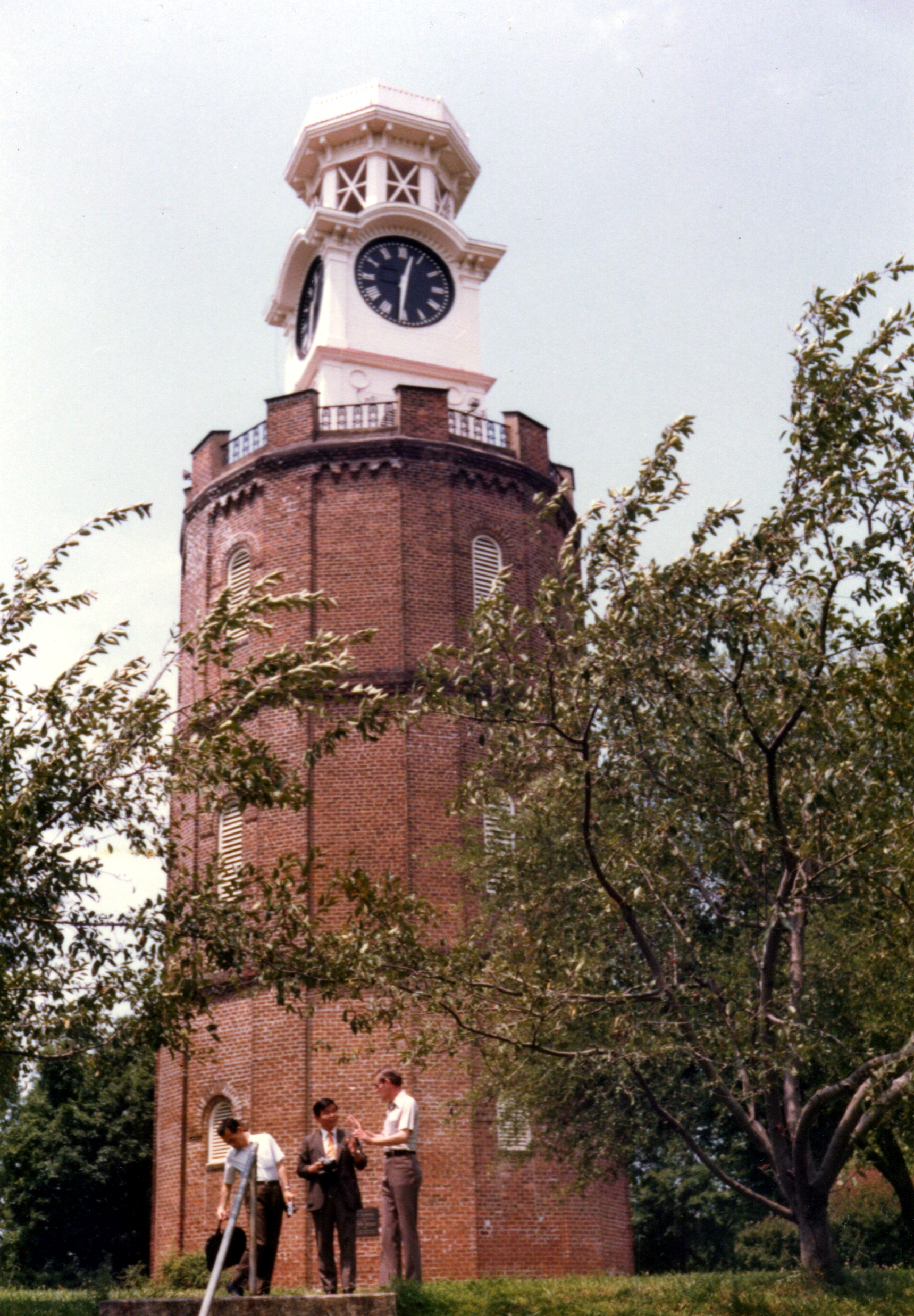 The Clock Tower on one of the seven hills of Rome, Georgia.